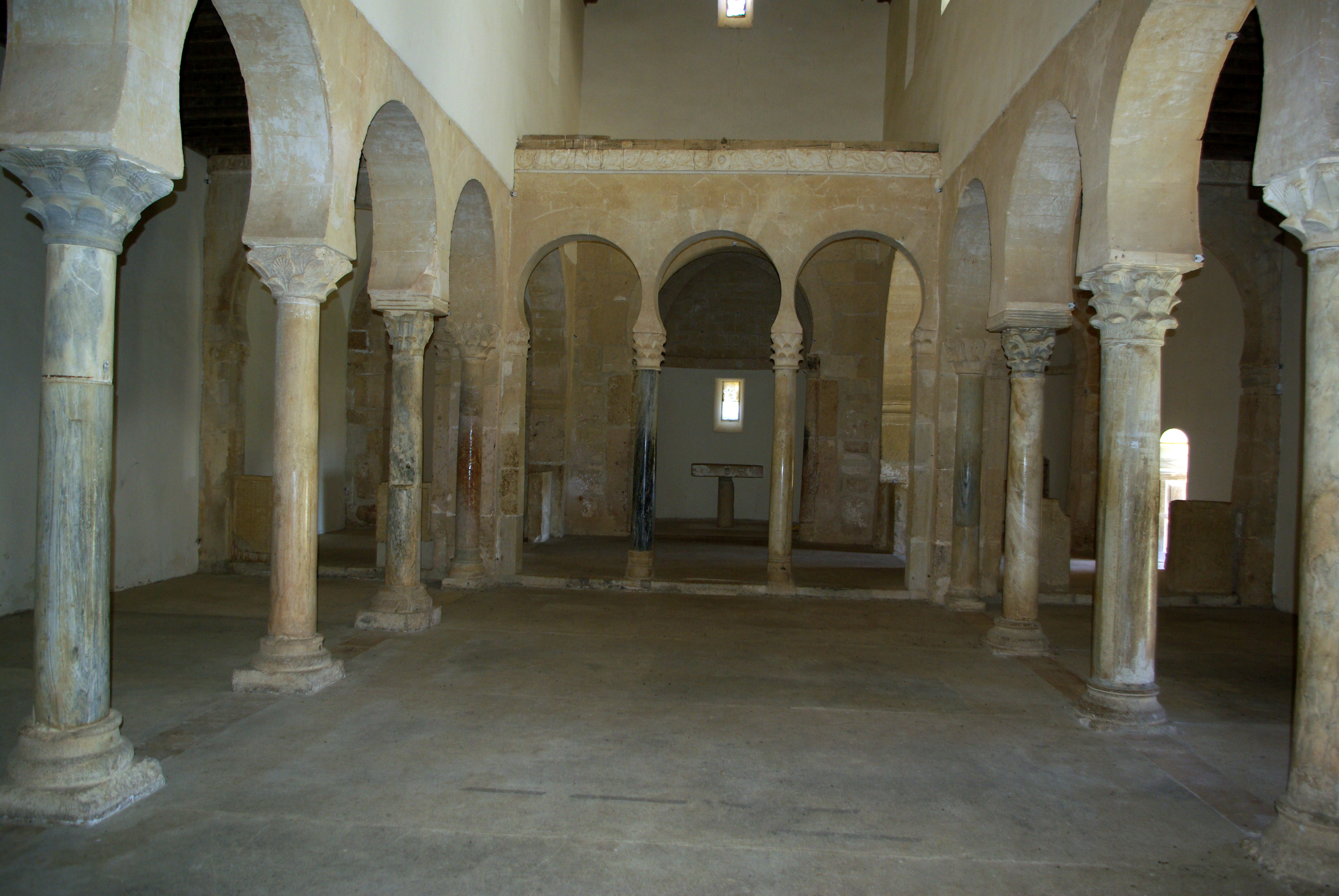 Monastery of San Miguel de Escalada, Gradefes (León, Spain).